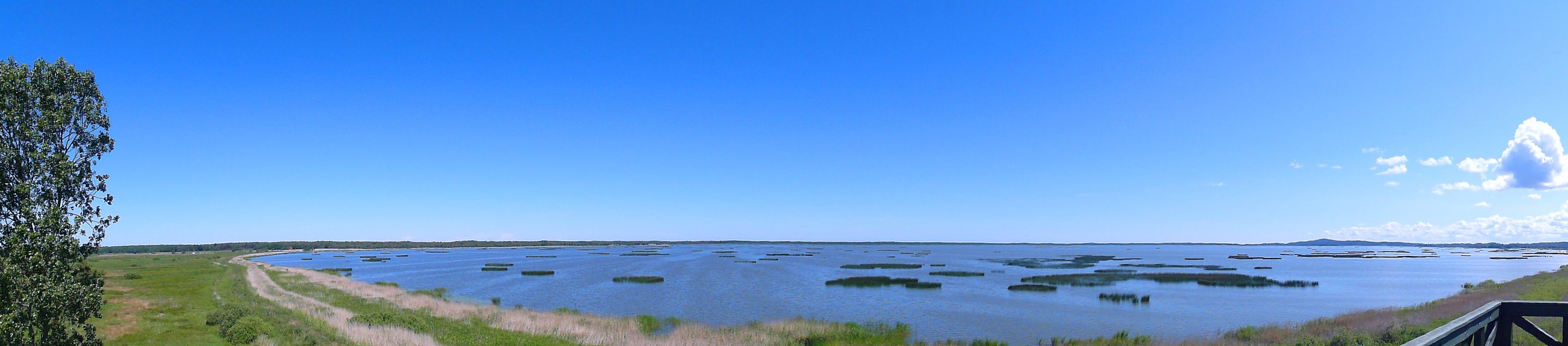 Panoramic view of the Lake Gardno